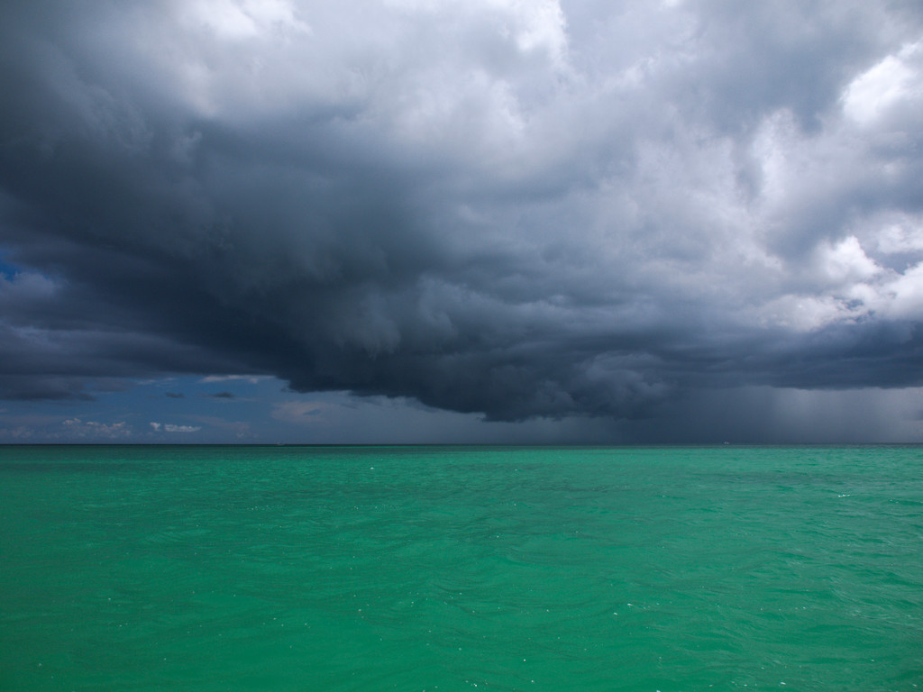 Incoming